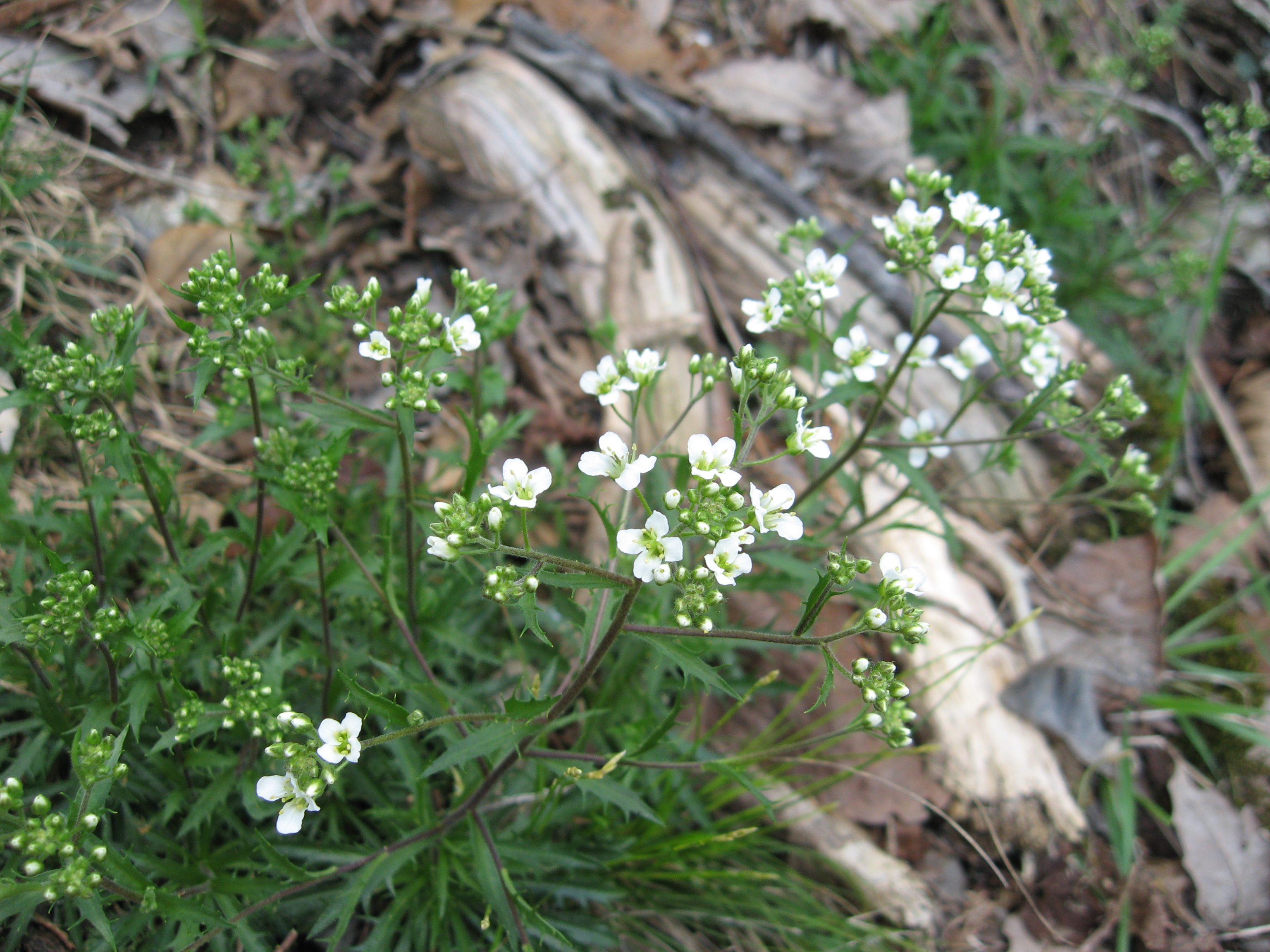 Draba ramosissima on limestone cliff at Crutcher and Sally Brown Nature Preserves, Garrard County, Kentucky.